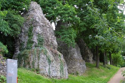 "Römersteine" in Mainz-Zahlbach, Germany; remains of a Roman aqueduct.